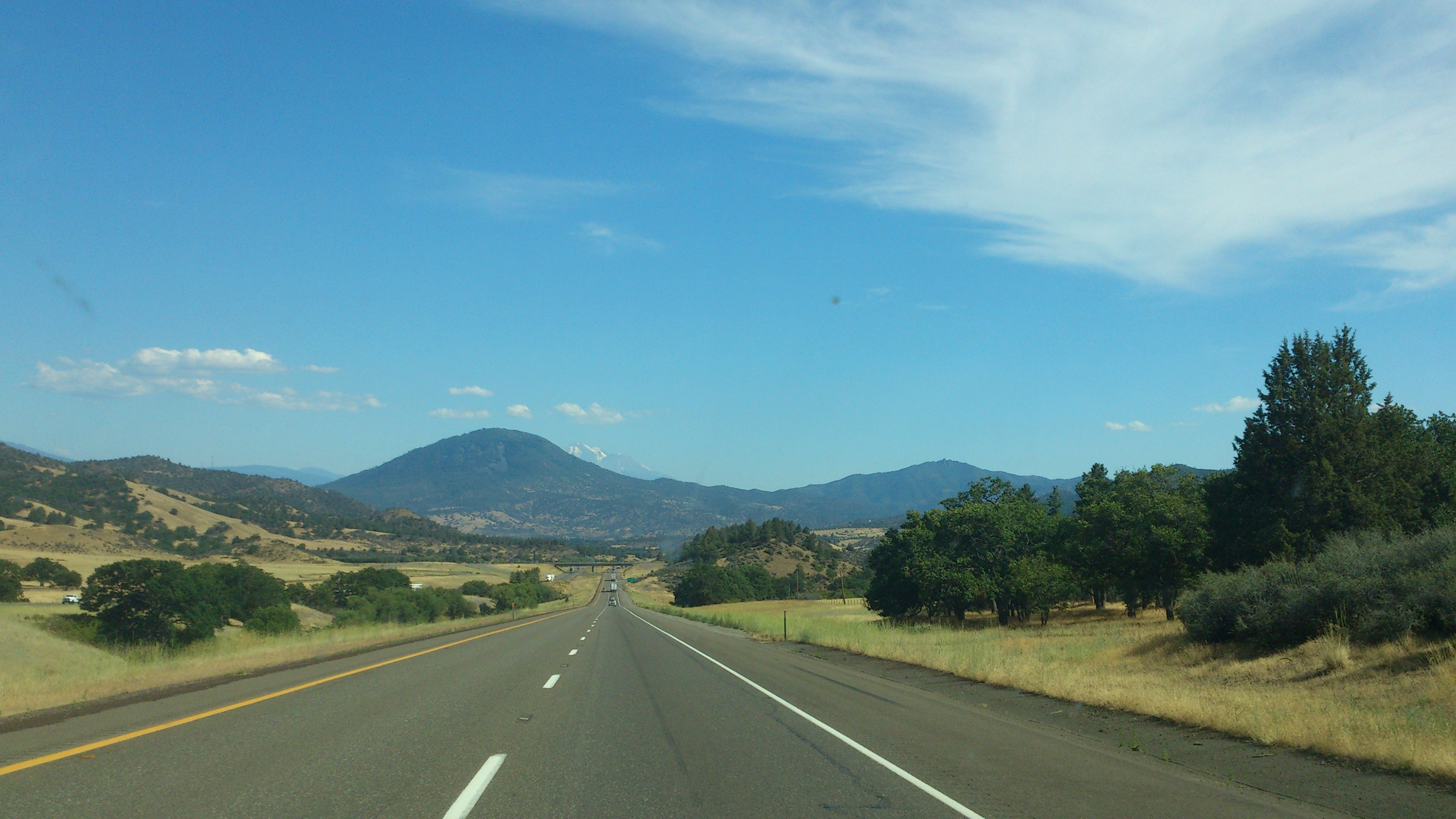 Southbound Interstate 5 in Siskiyou County, California, close to the border with Oregon